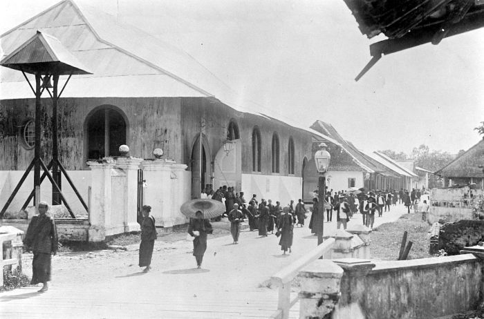 People leaving the protestant church